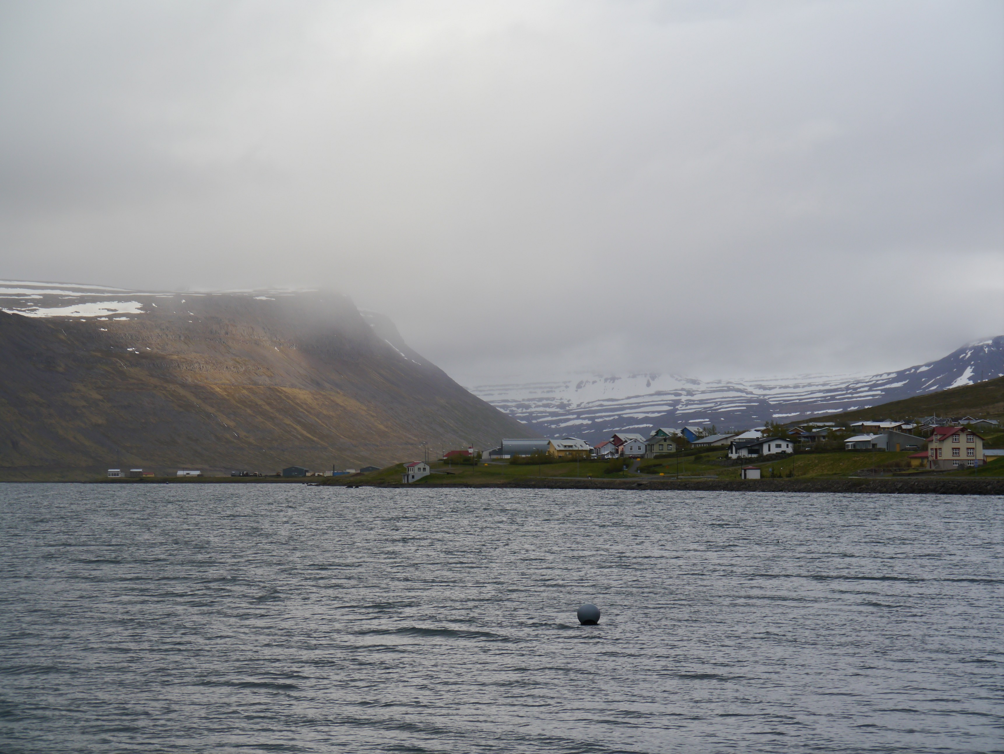 the Icelandic Westfjords